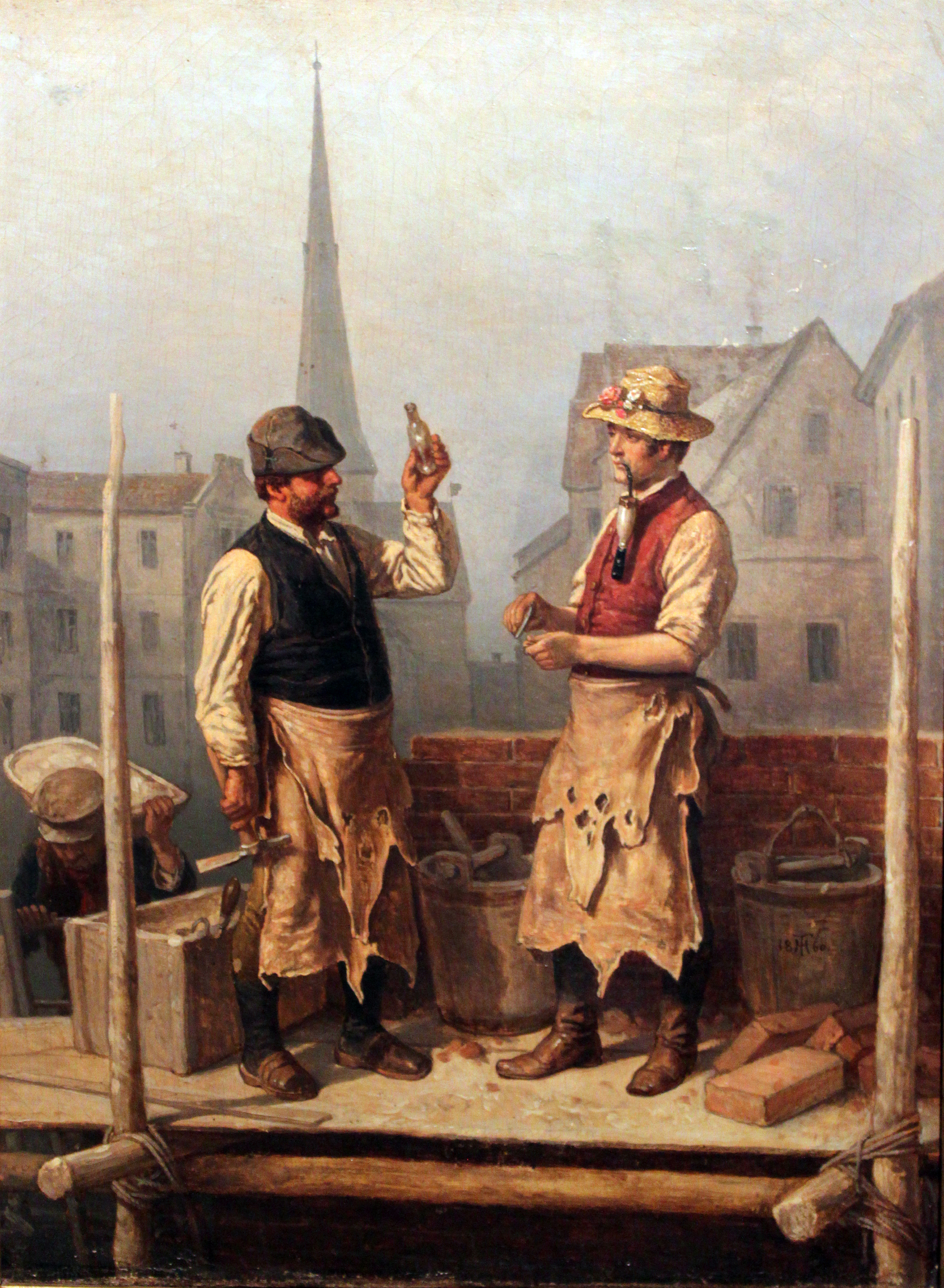 Masons in the construction of the Red Town Hall, Berlin